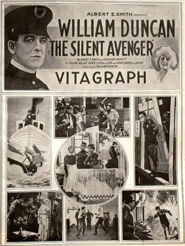 Ad for the American film serial The Silent Avenger (1920) with William Duncan and Edith Johnson, on page 3043 of the April 3, 1920 Motion Picture News.